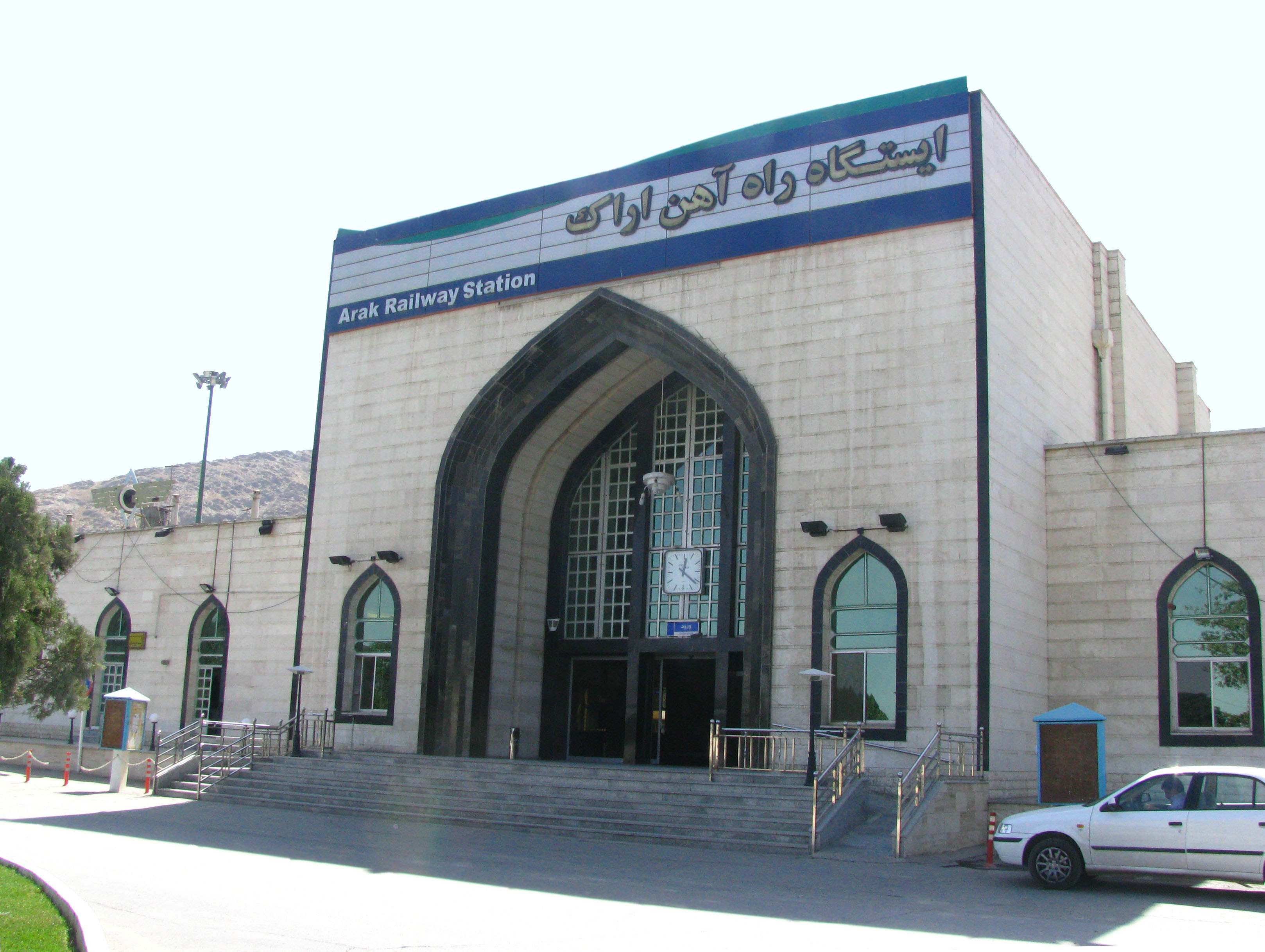 Arak Railway Station.